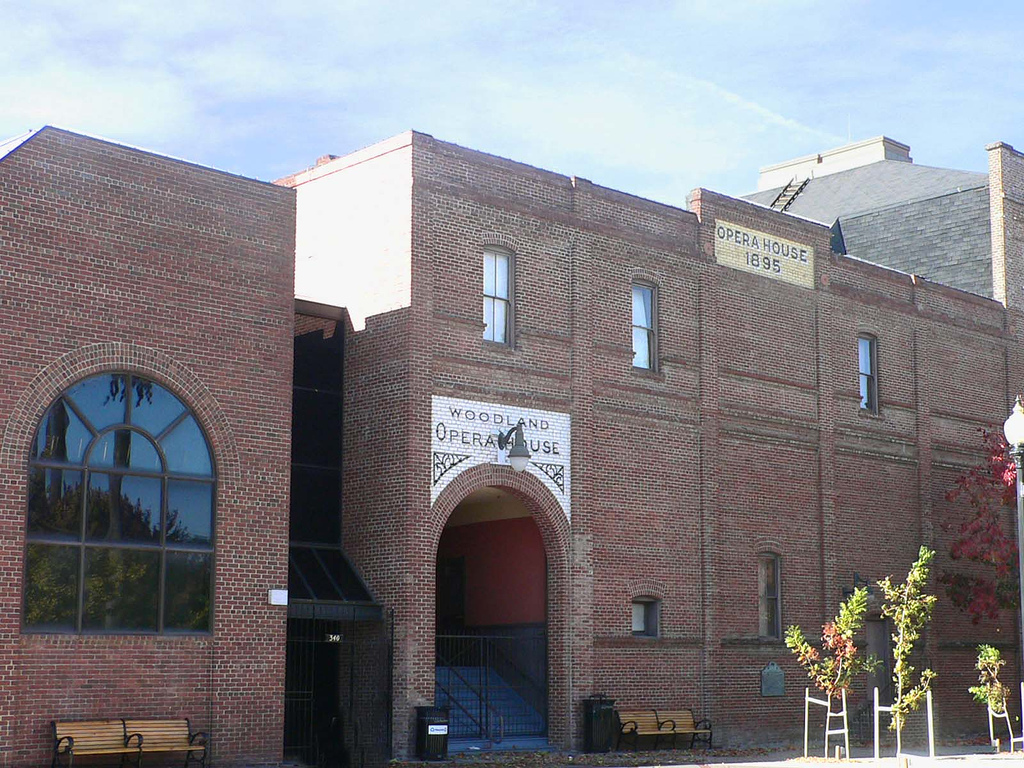 A picture of the front of the Woodland Opera House. A US Historical Landmark in Woodland, CA.